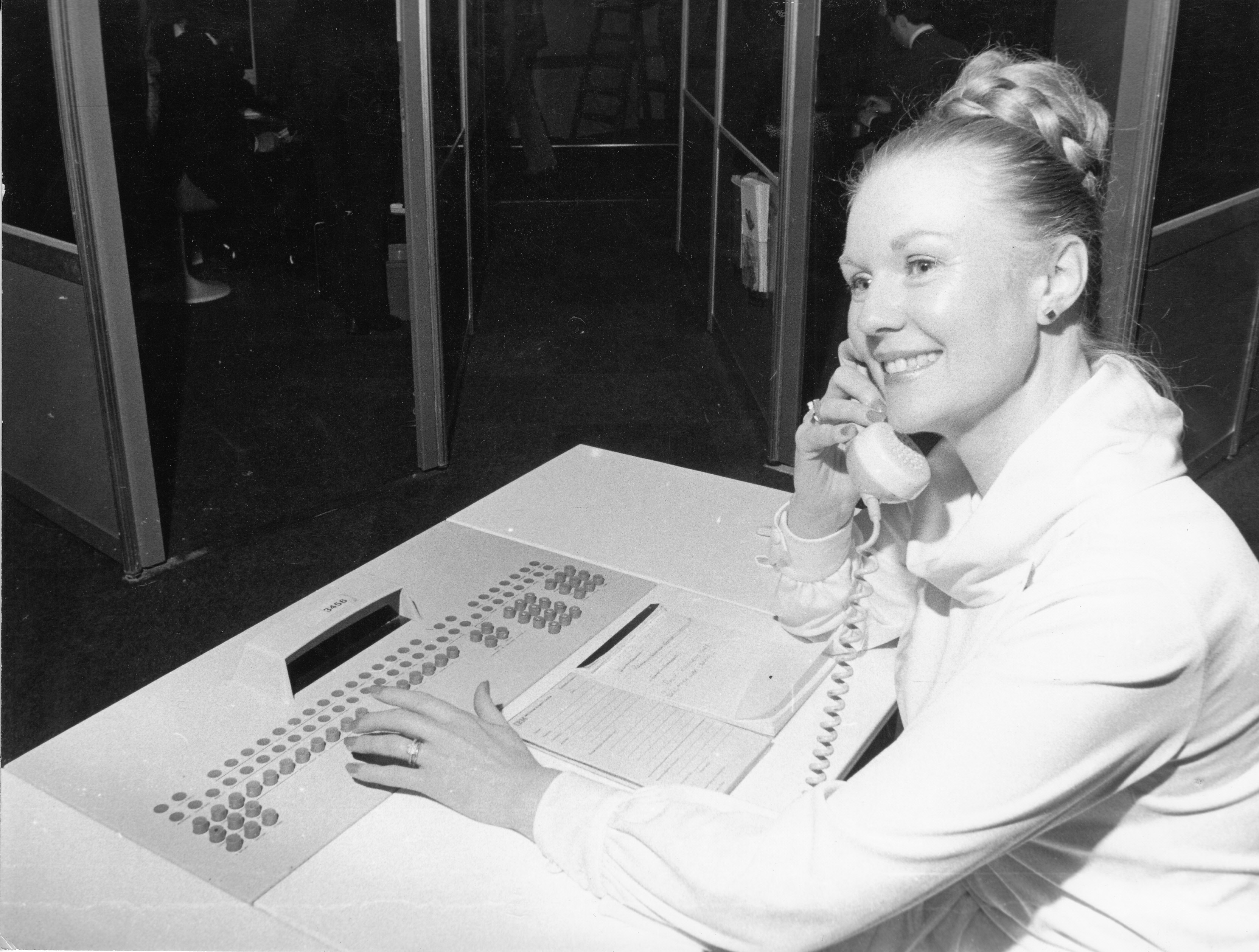 The IBM 3755 Operator Desk was used with IBM 1750, 2750 and 3750 Switching Systems which were the world's first stored-program-controlled PABXs (Private automatic branch exchanges). They were developed from the late 1960s in IBM's La Gaude laboratory near Nice in southern France.